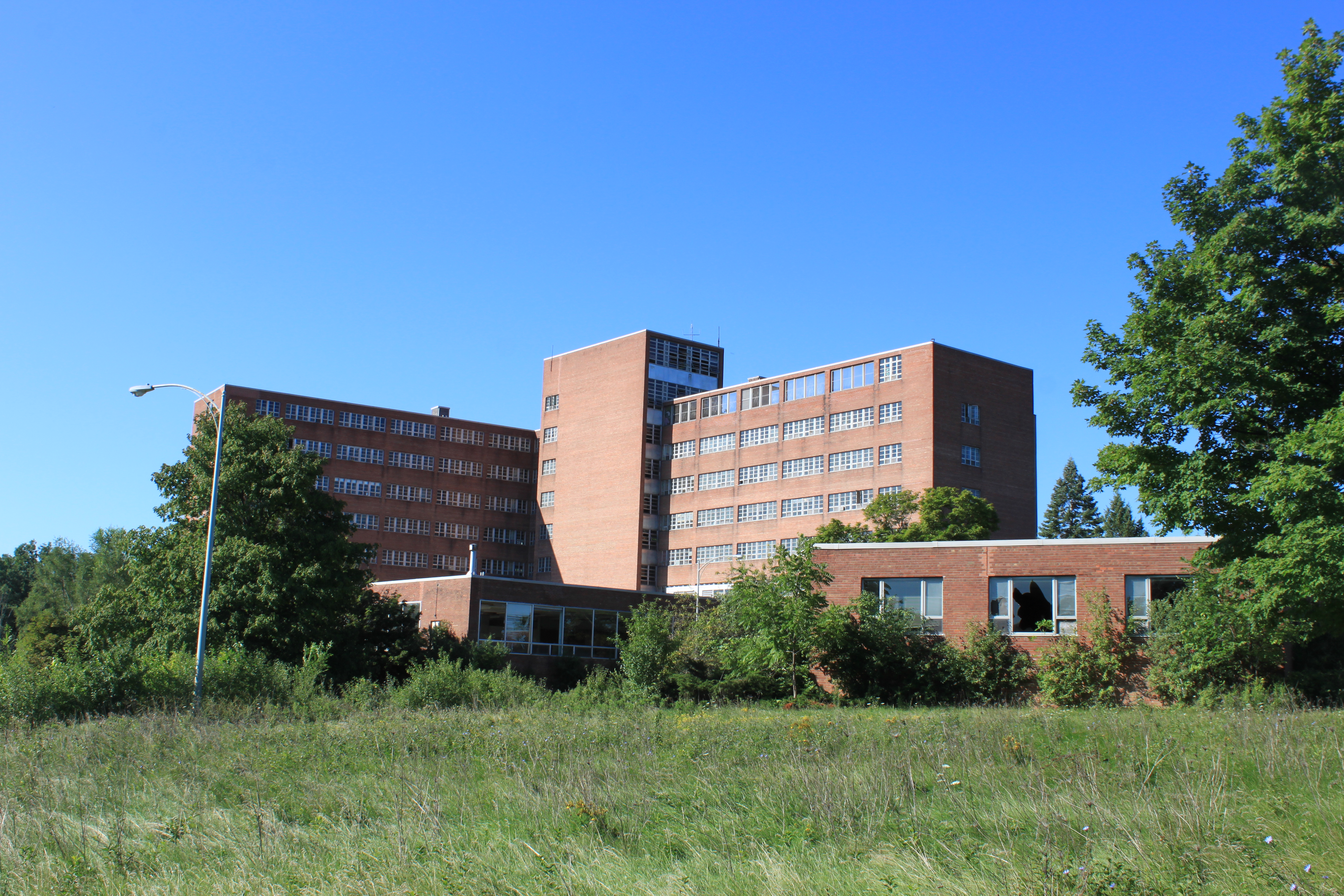 Former Northville Regional Psychiatric Hospital, 41001 West Seven Mile Road, Northiville Township, Michigan. The buildings are slated for demolition at some future date.